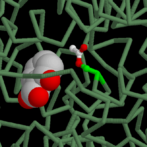 aspirin blocking ciclooxygenase